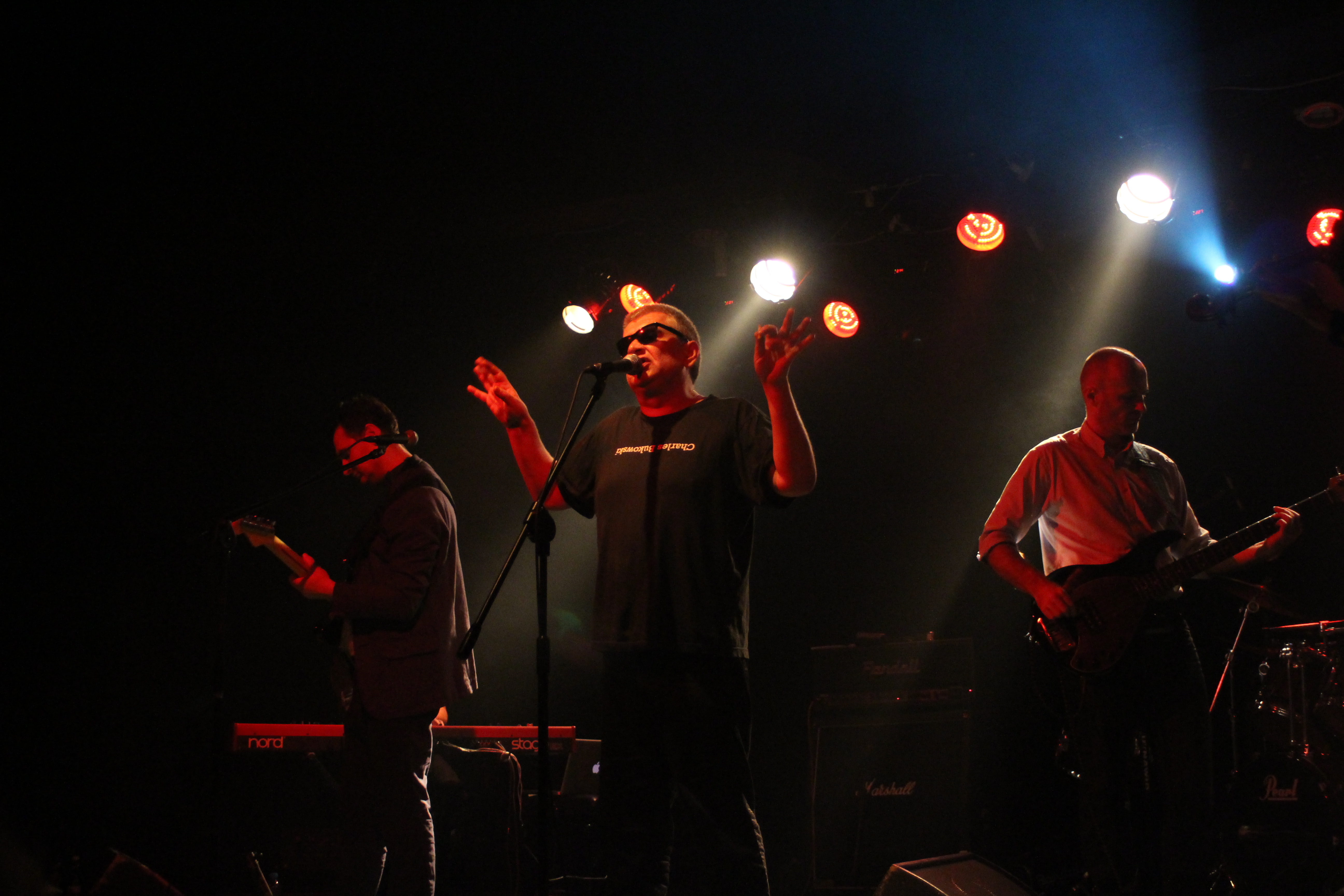 Świetliki, Polish music band led by poet Marcin Świetlicki during the concert at Rotunda in Kraków.